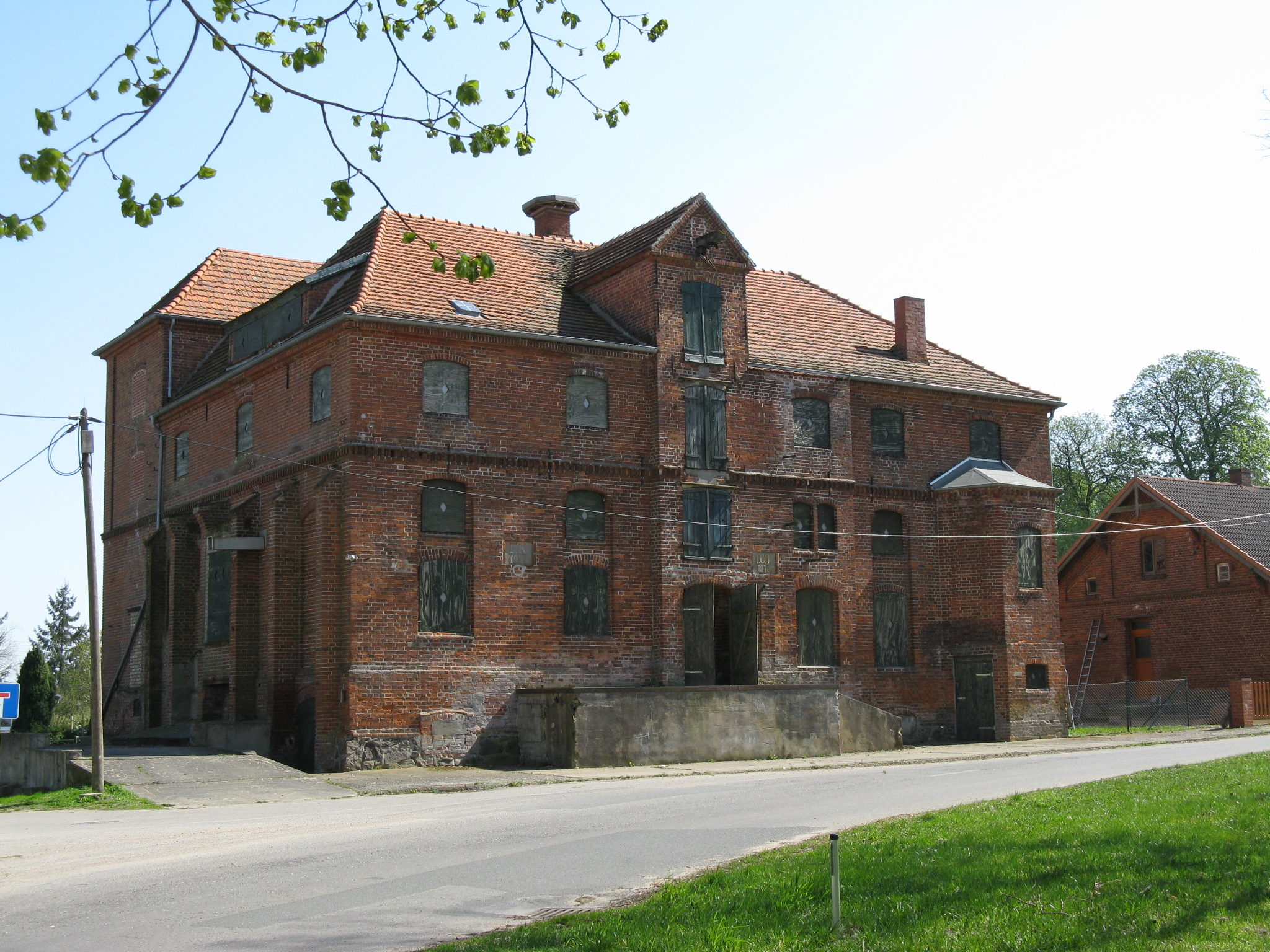 Warehouse in Prestin, disctrict Parchim, Mecklenburg-Vorpommern, Germany